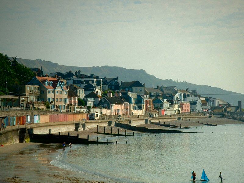 Lyme Regis, England